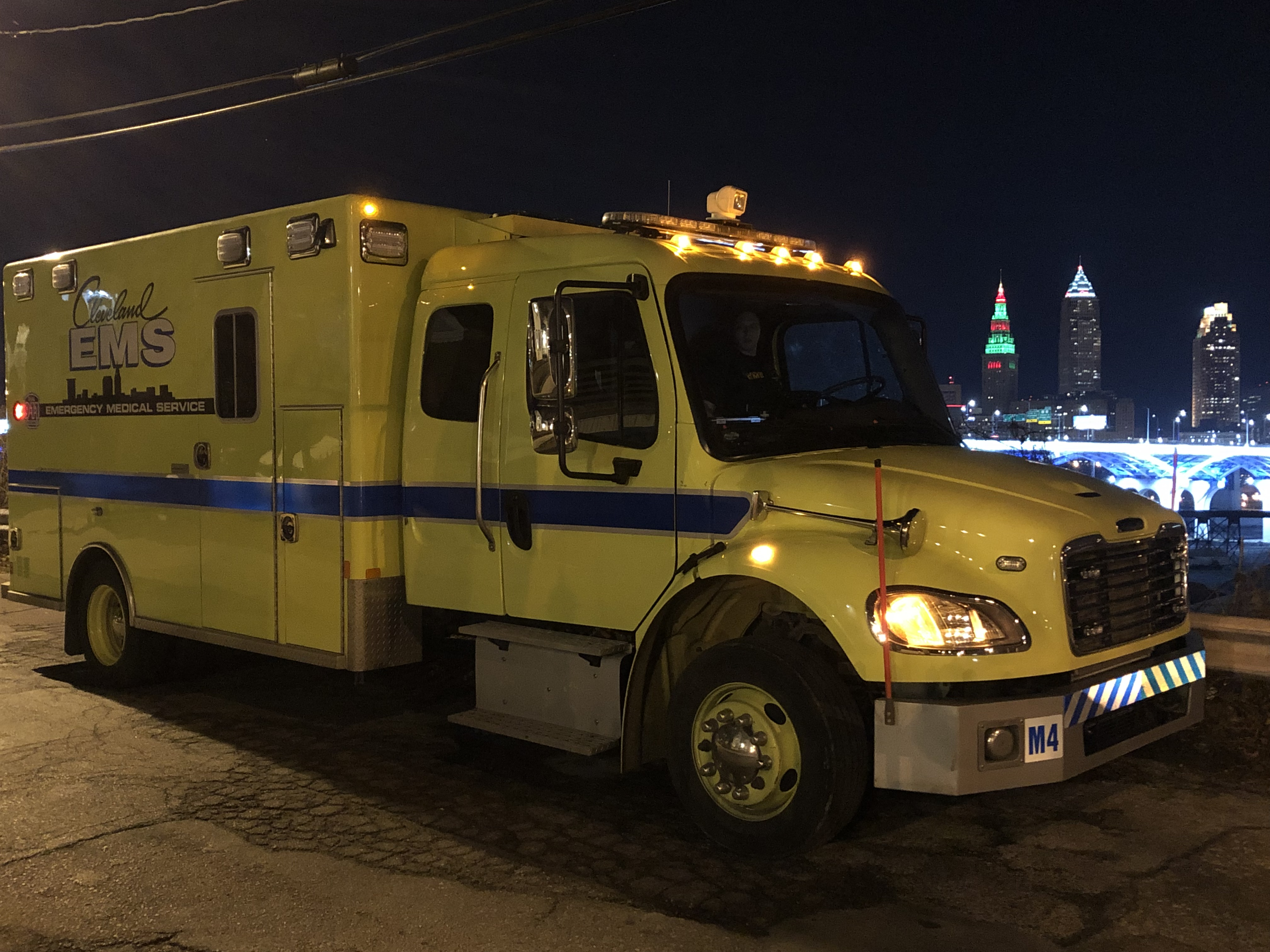 Ambulance, Cleveland Ohio skyline.